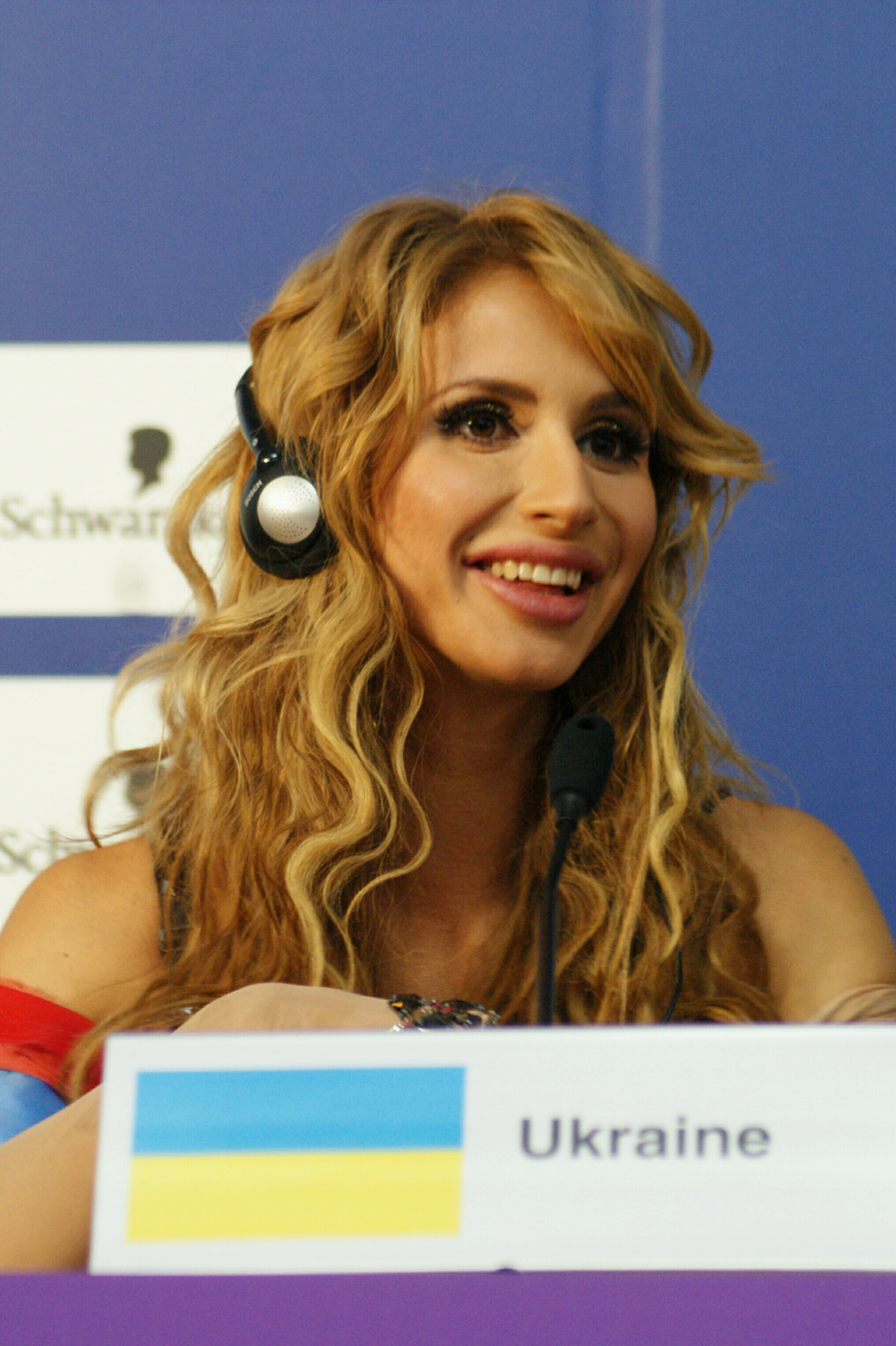 Svetlana Loboda in May 2010.